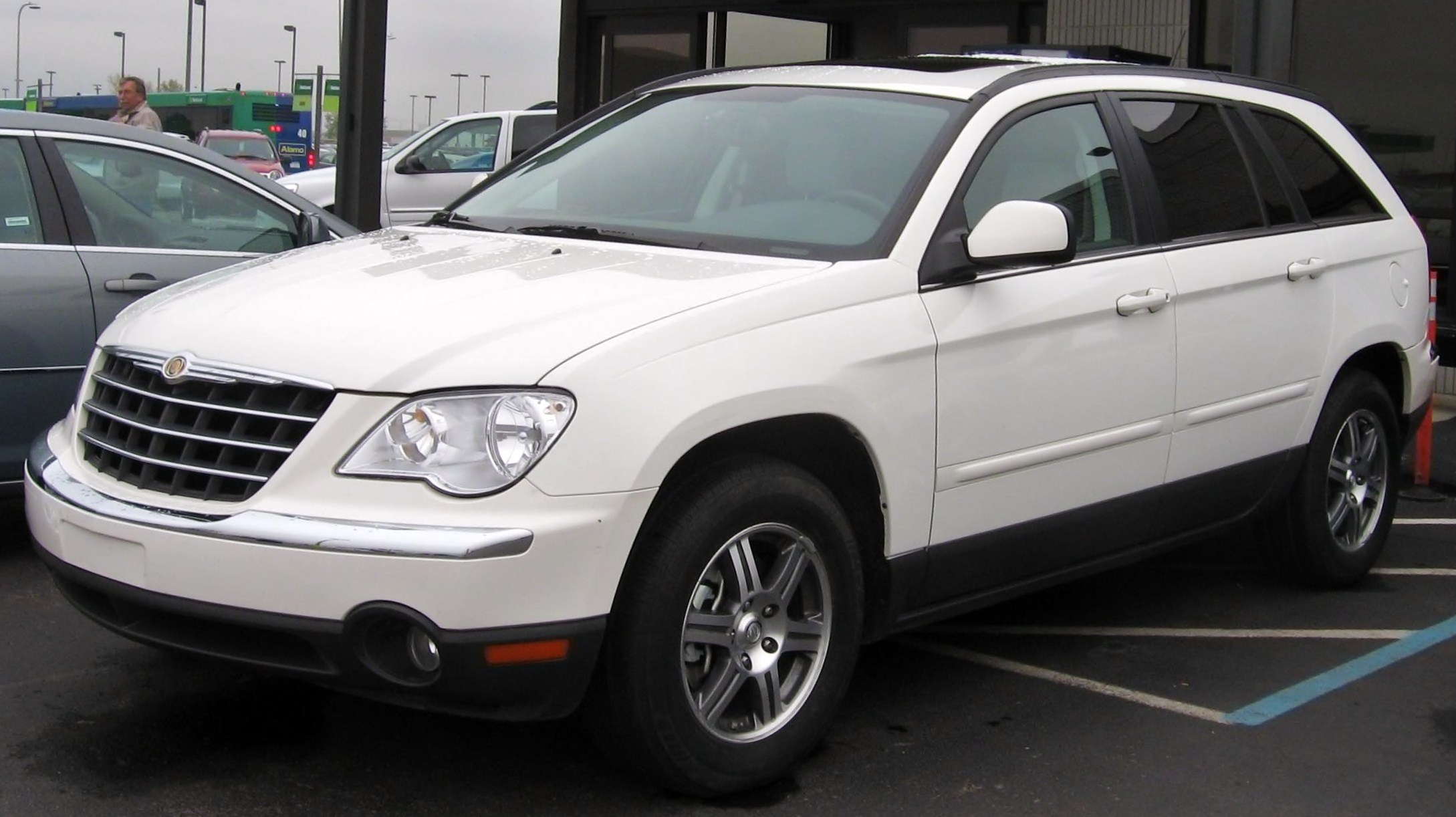 2007-2008 Chrysler Pacifica photographed in Romulus, Michigan, USA.